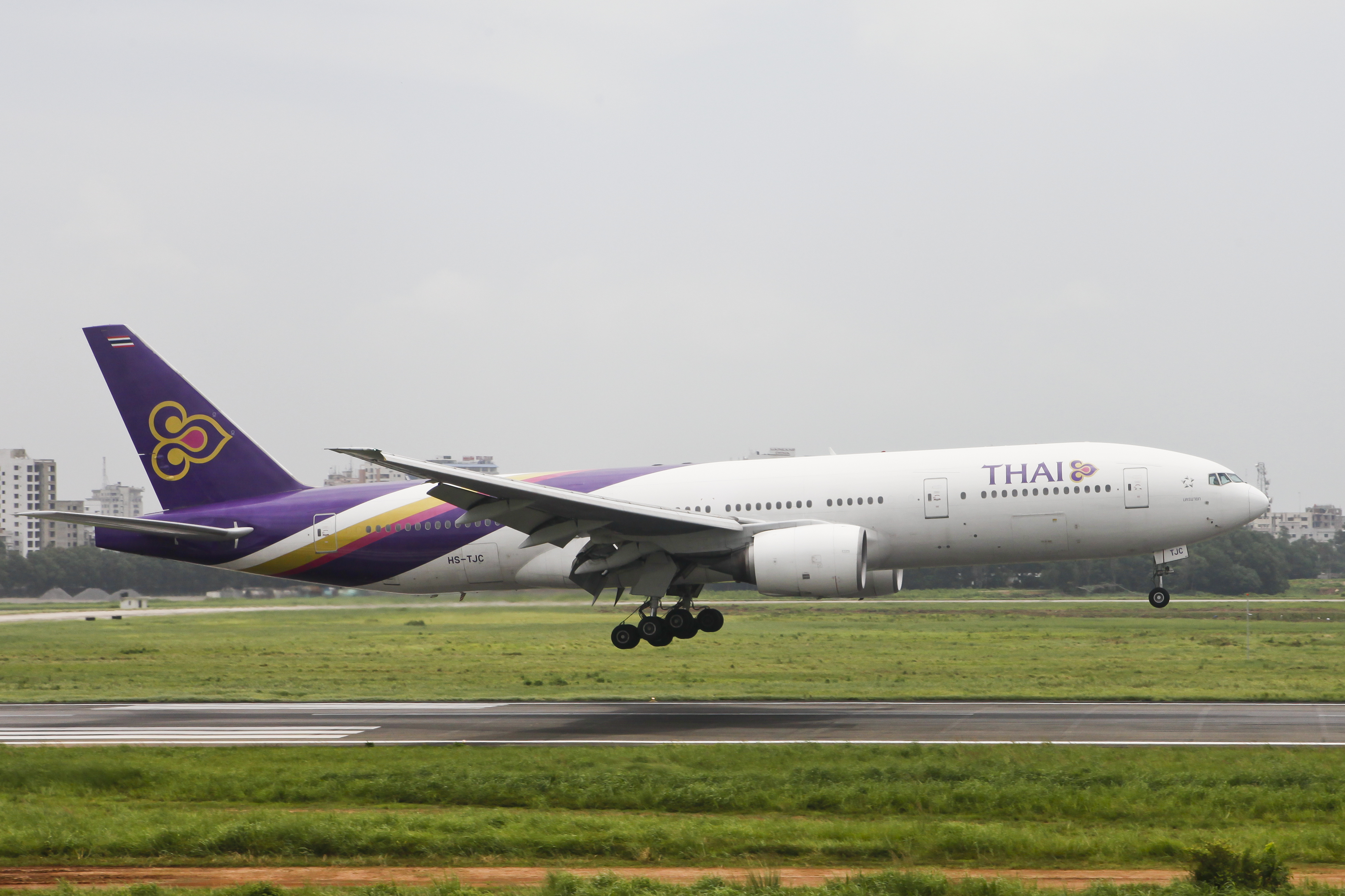 Thai Airways Boeing 777-2D7 (HS-TJC) landing at Hazrat Shahjalal International Airport Dhaka (VGZR)